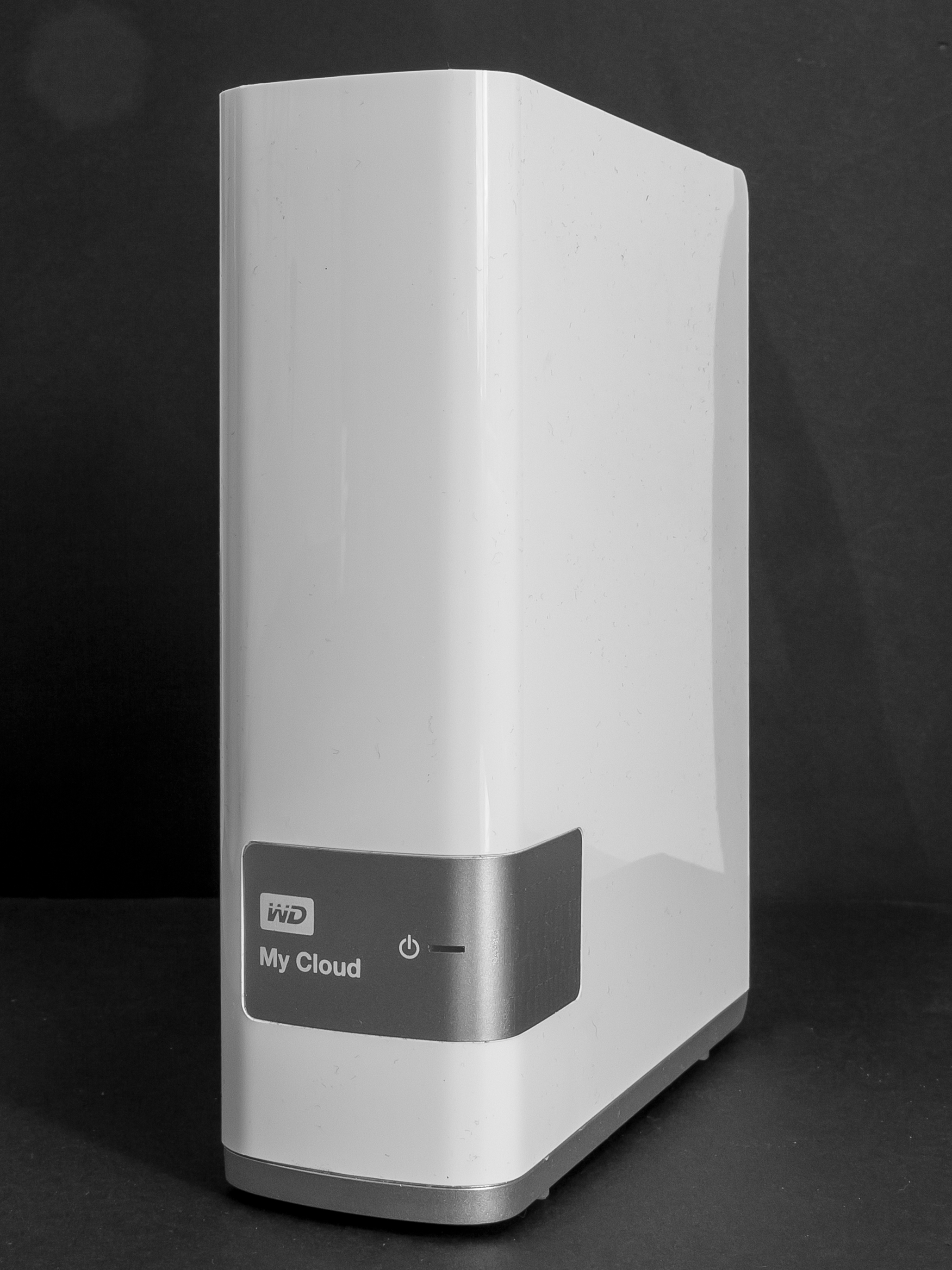 External network hard drive: Western Digital My Cloud 4 TB